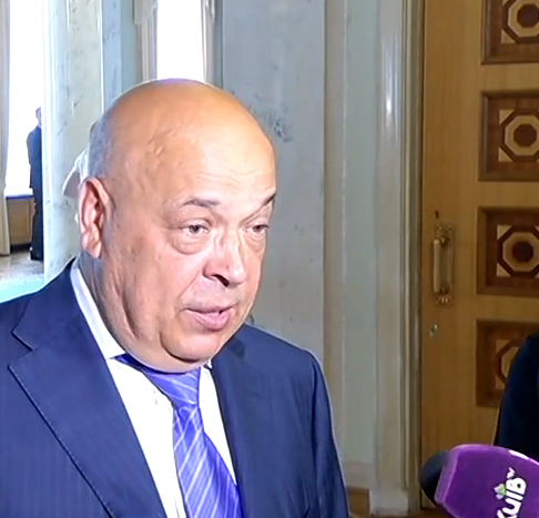 Hennadiy Moskal talks to reporters in the Ukrainian parliament's lobby, June 5, 2014.